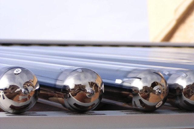 vacuum tube solar collector